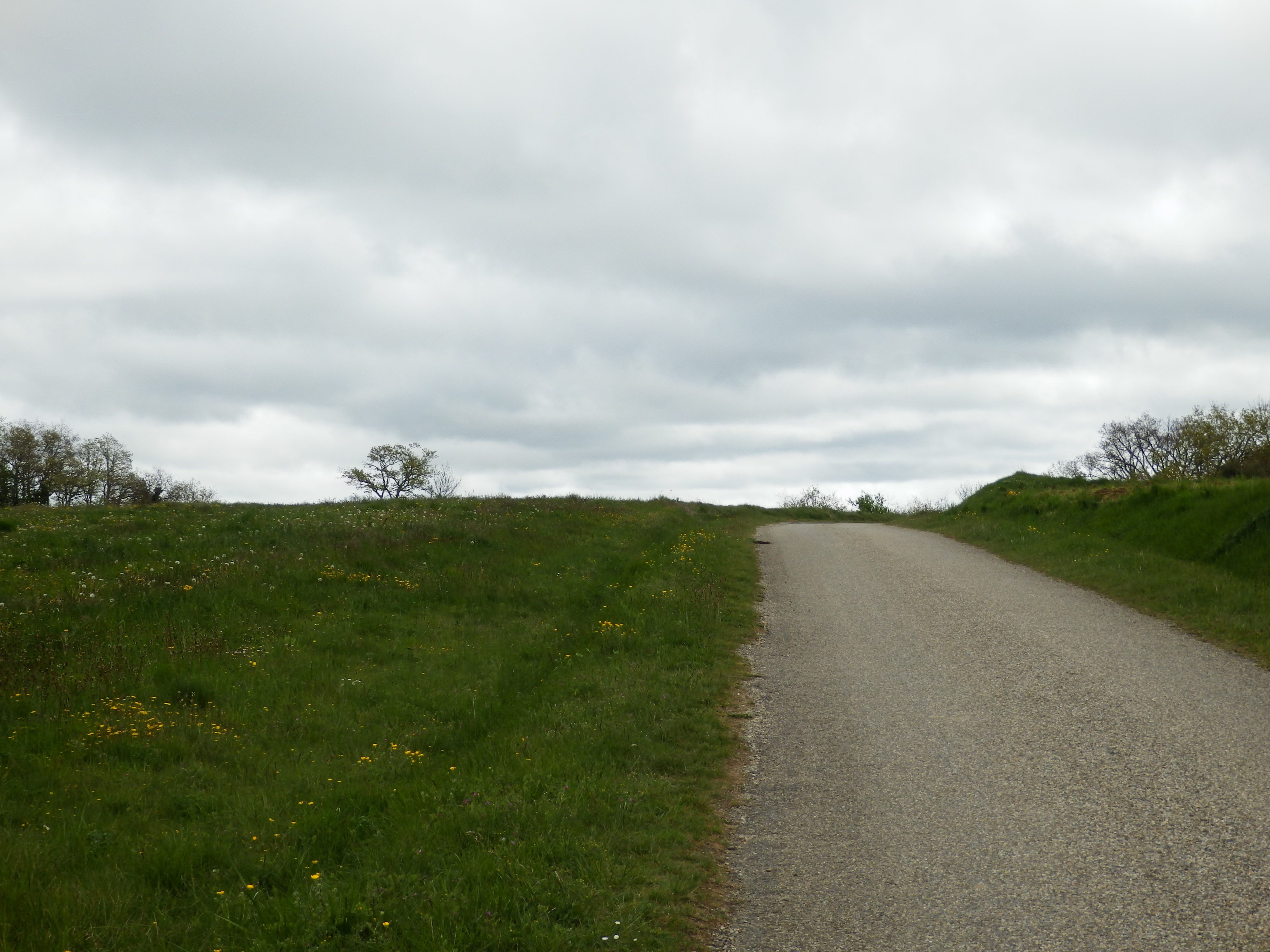 D30 in Saint-Benoît, Aude, France